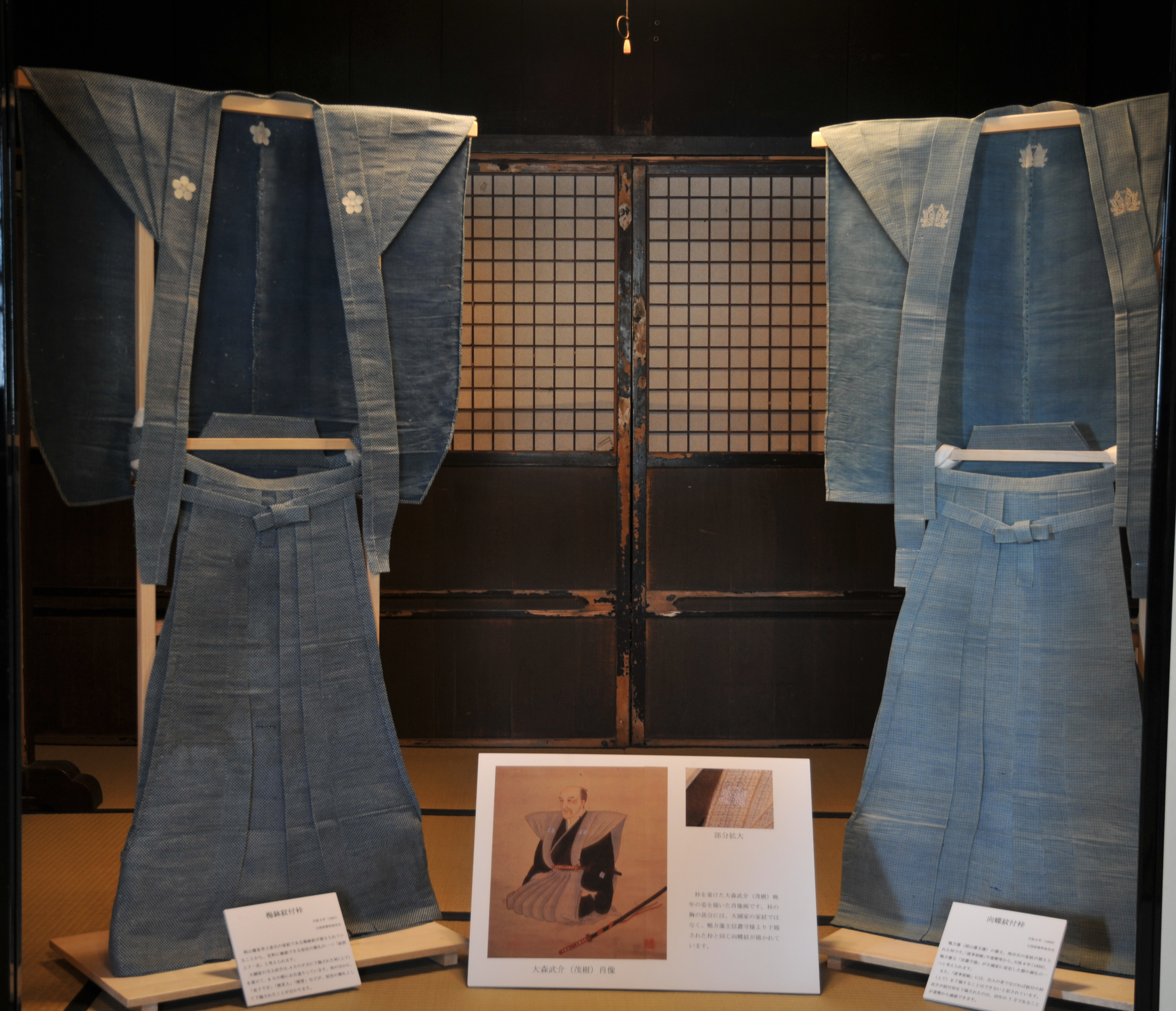 The Communion Kamishimo from Kamogata feudal lord(right) and Okayama domain Karo's Tokura(left), Former Ōkuni House